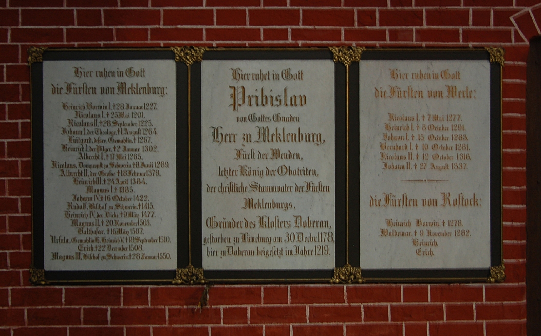 Pictures from Doberan Minster